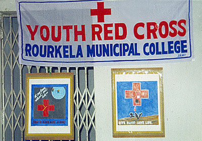 Municipal College